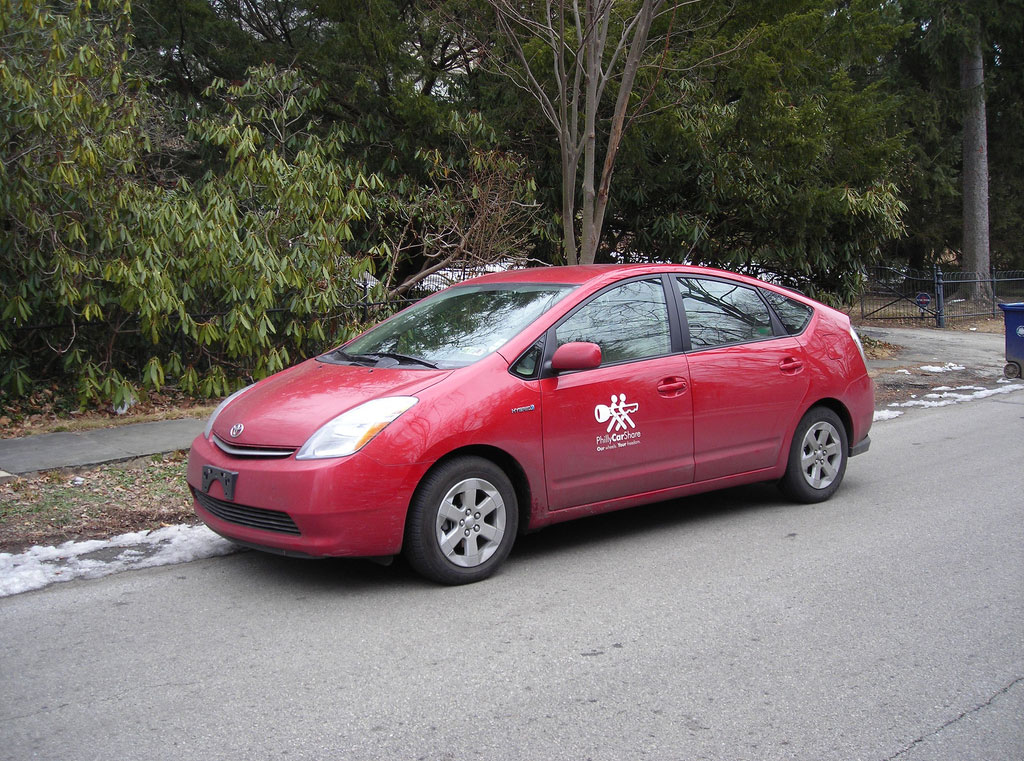 2006 Toyota Prius Car Share